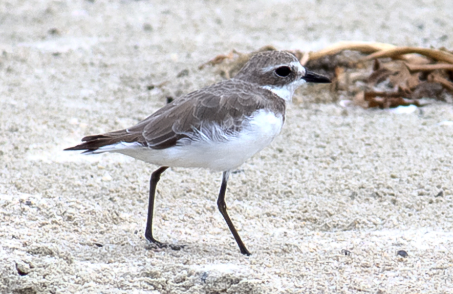 Charadrius leschenaultii photographed at Alappuzha, Kerala, India